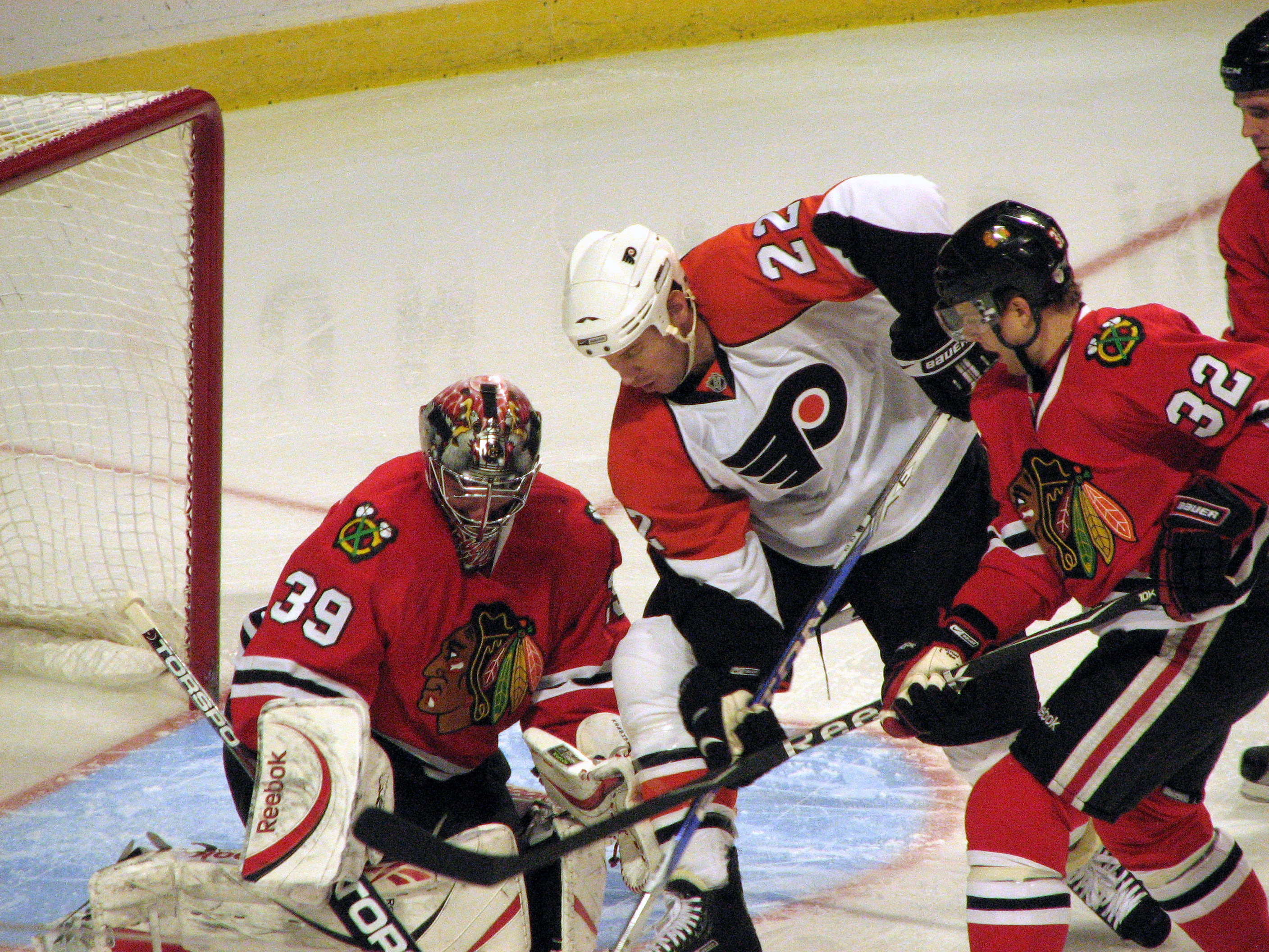 Nikolai Khabibulin (#39) and Kris Versteeg (#32) of the Chicago Blackhawks and Mike Knuble (#22) of the the Philadelphia Flyers.